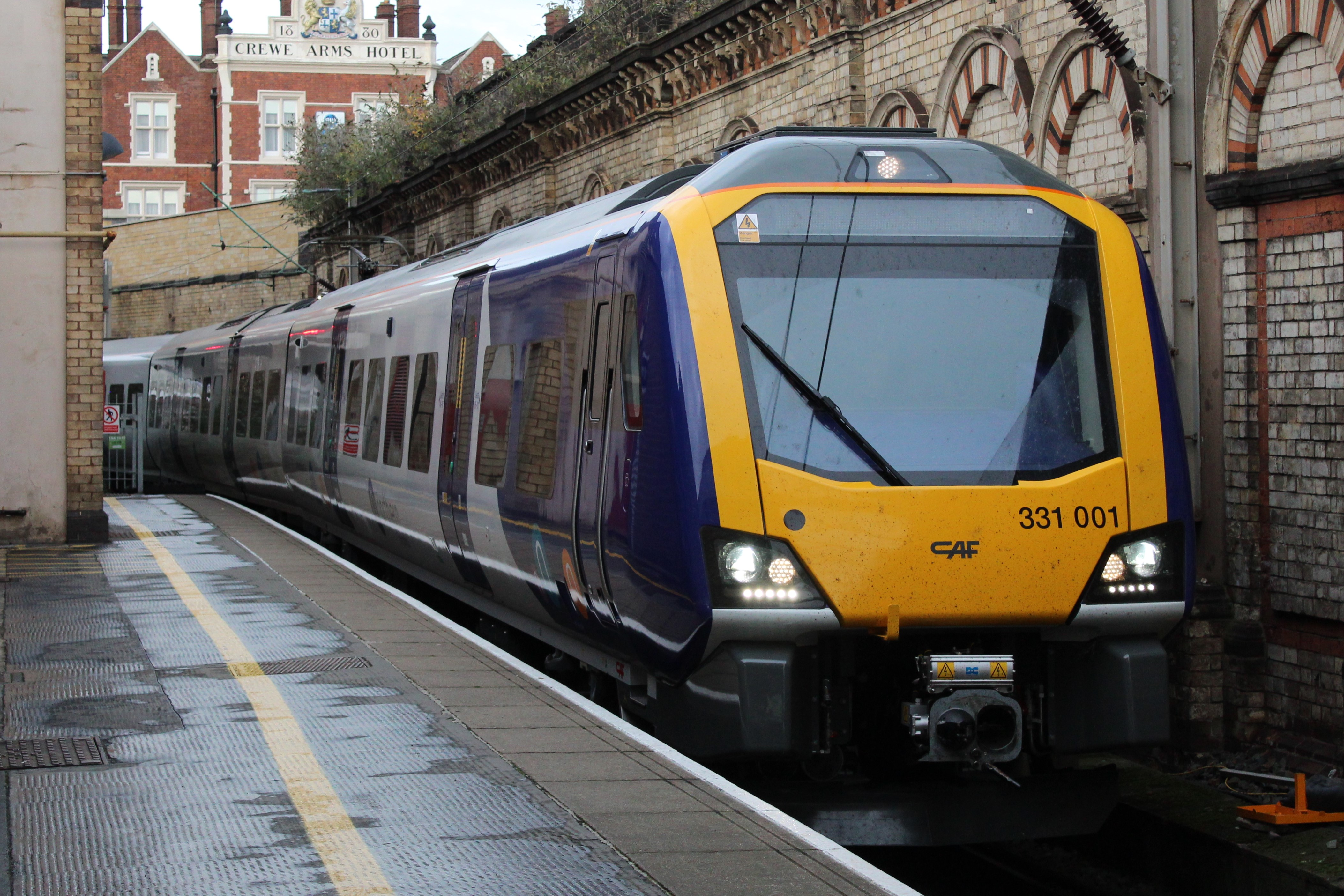 331001 on test 30th October 2018 on Crewe platform 1